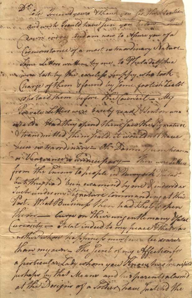 Correspondence from Major Richard Howell on October 5, 1778, with a note added by Captain John Peck on October 18, 1778, to Shreve.